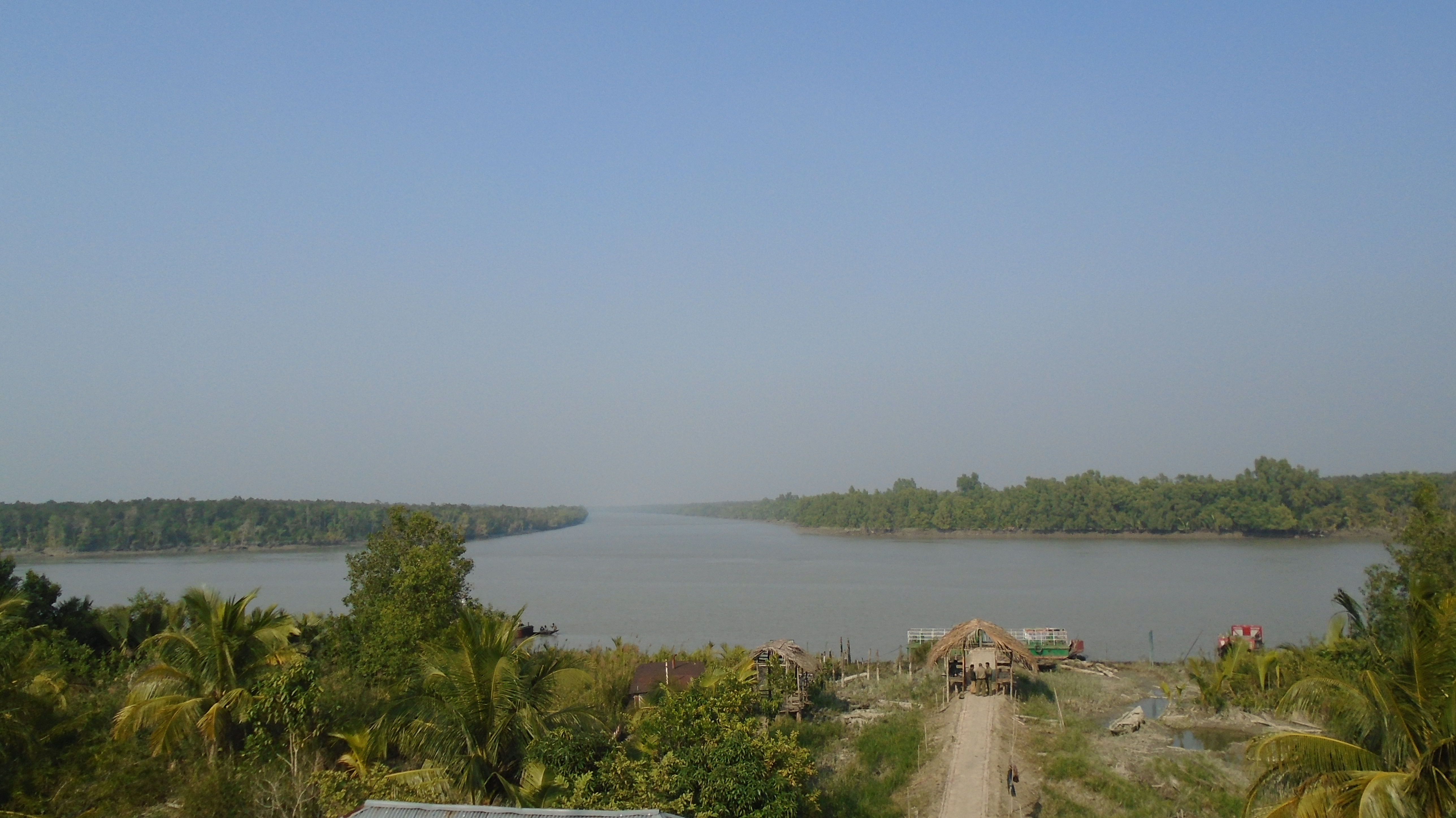 Sky view of Sundarban from top of a forest camp.